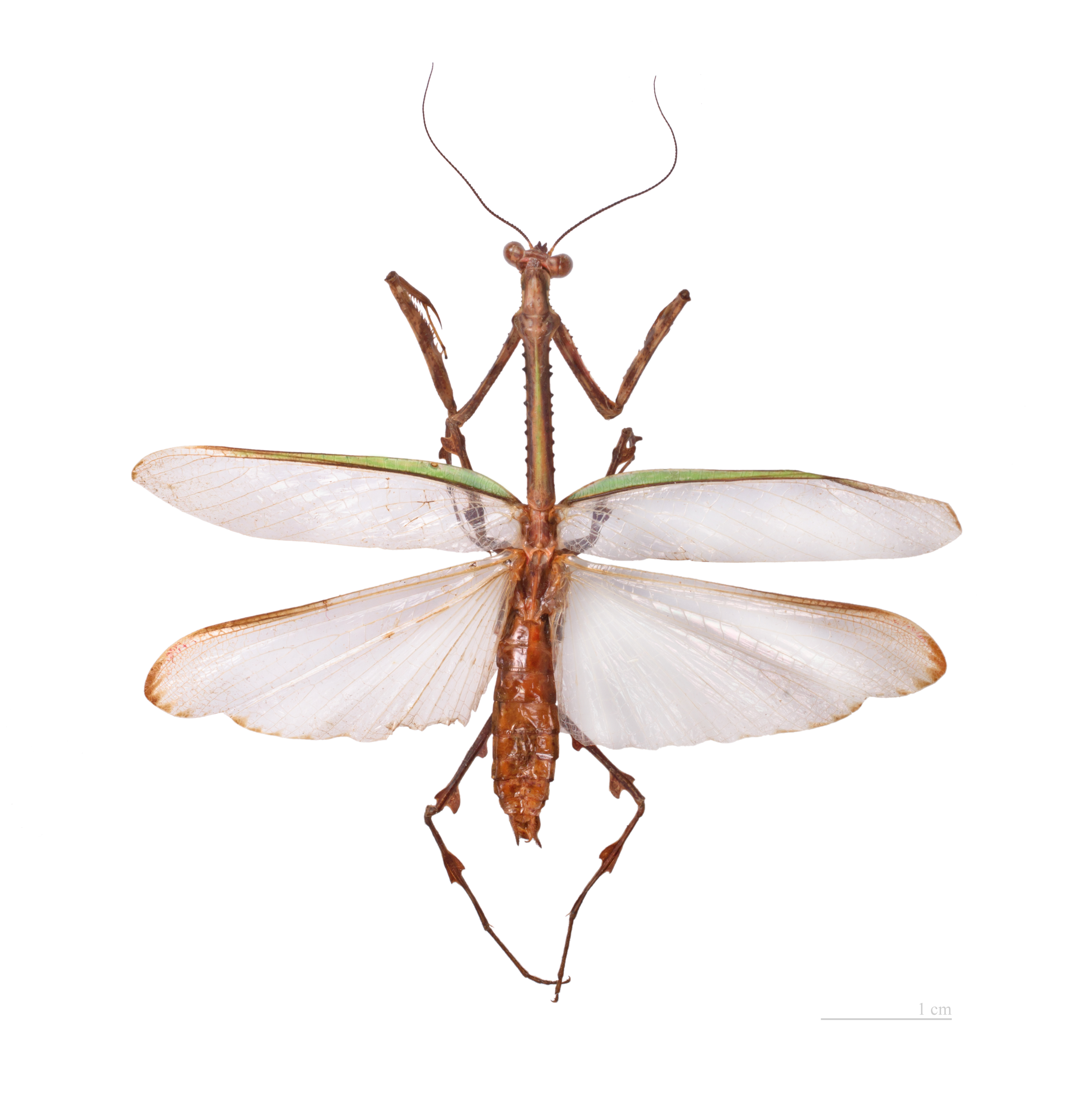 ♂ Flying position Locality : Montsinéry, Risquetout track, crossing with Leodate jump, French Guiana.